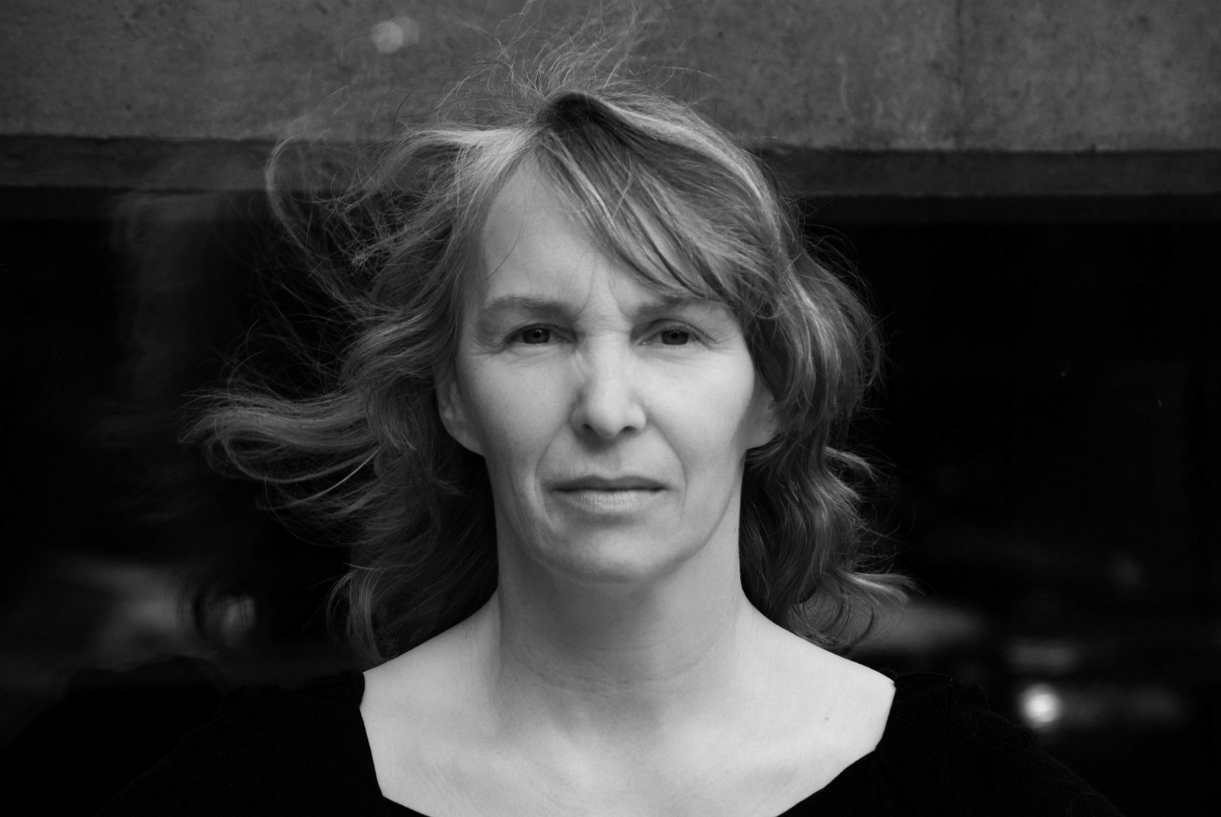 Portrait of Louise Bédard, choreographer and dancer.